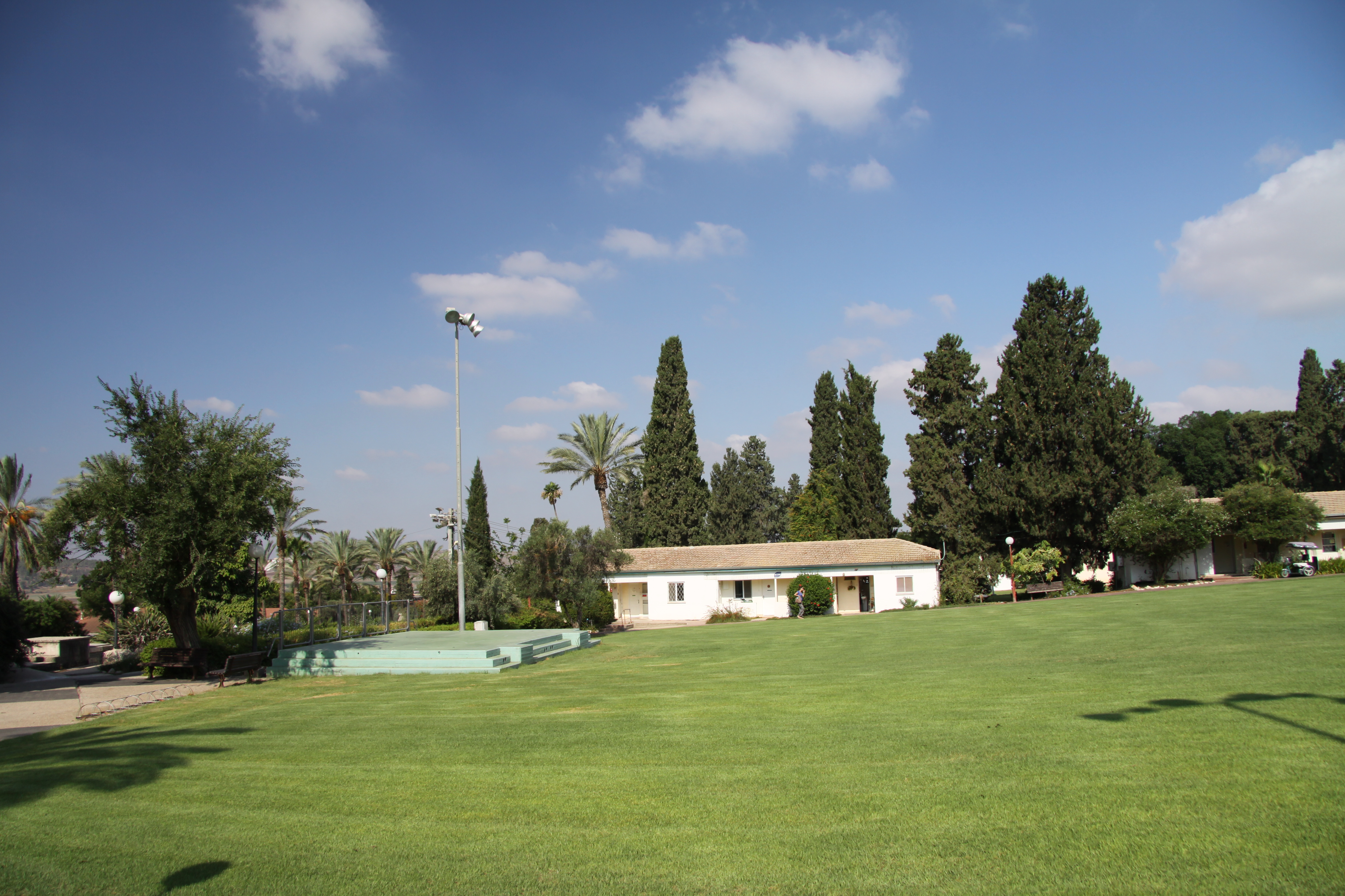 Kibbutz Geva in Israel - Google Maps - Google Earth